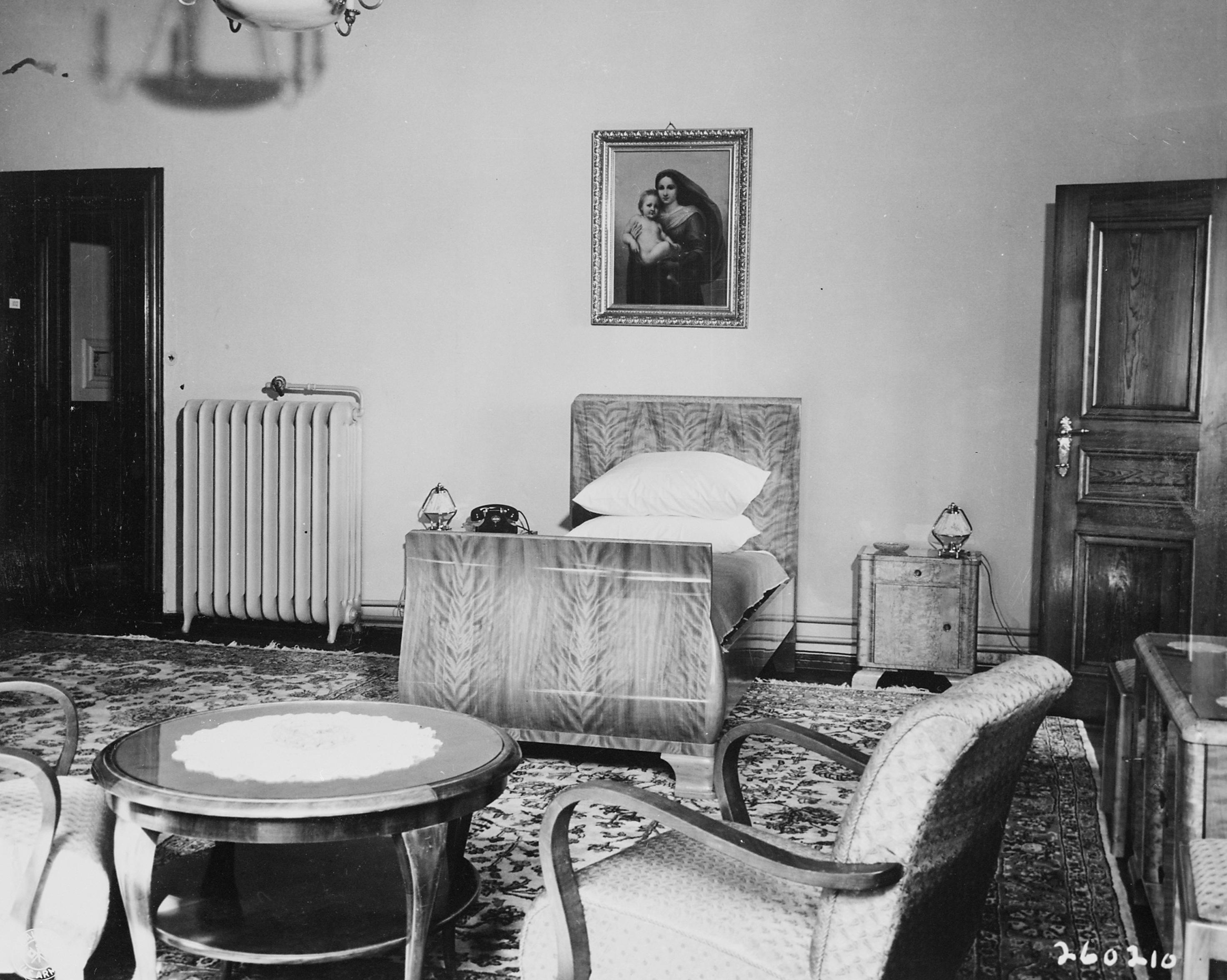 President Harry S. Truman occupies this simply furnished bedroom during his attendance at the Potsdam Conference in Germany. The bed is made up with G. I. blankets. President Truman's residence is located in Babelsberg, Germany.